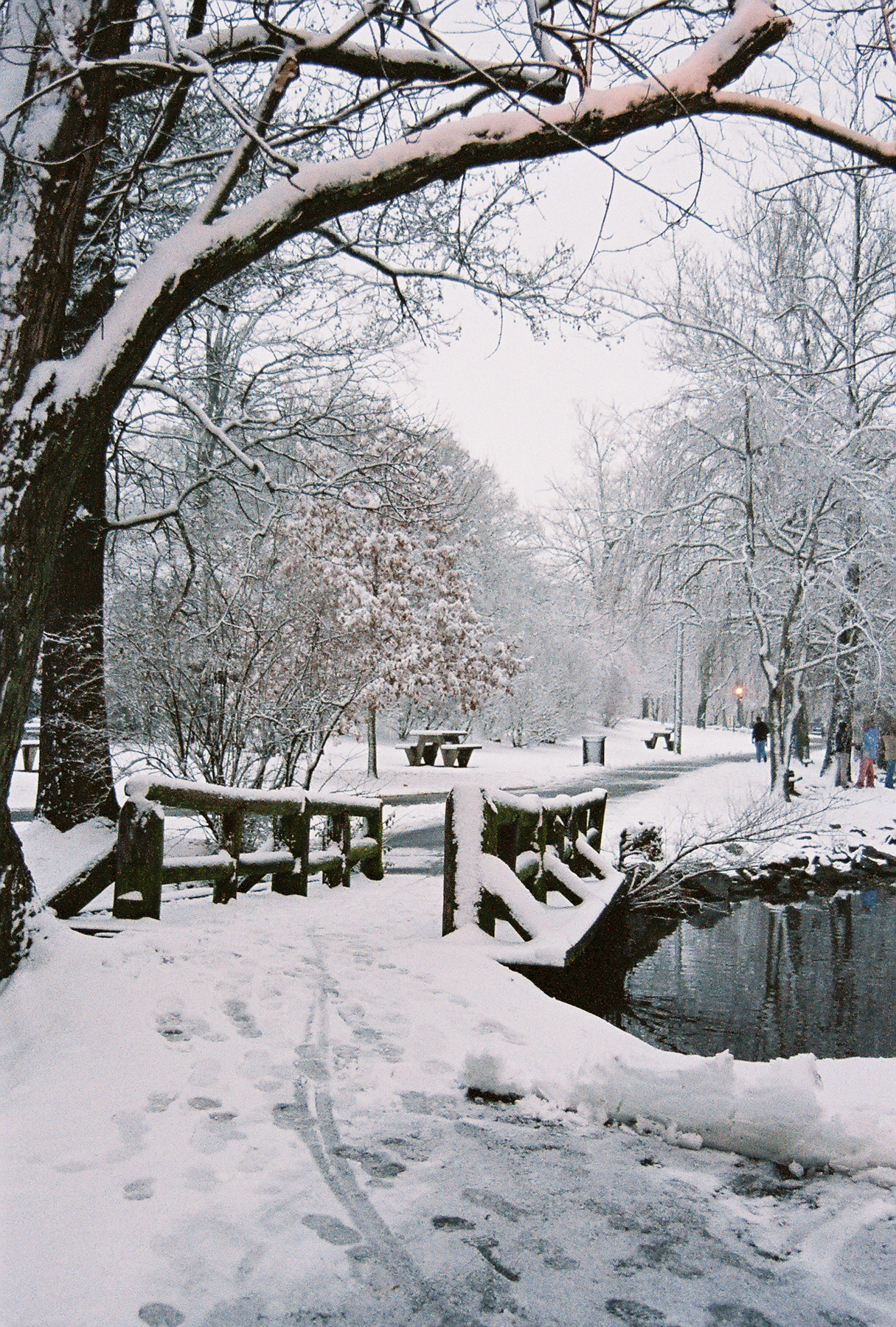 Bridge covered with snow. Duck Pond at Virginia Tech, Blacksburg, VA, USA.